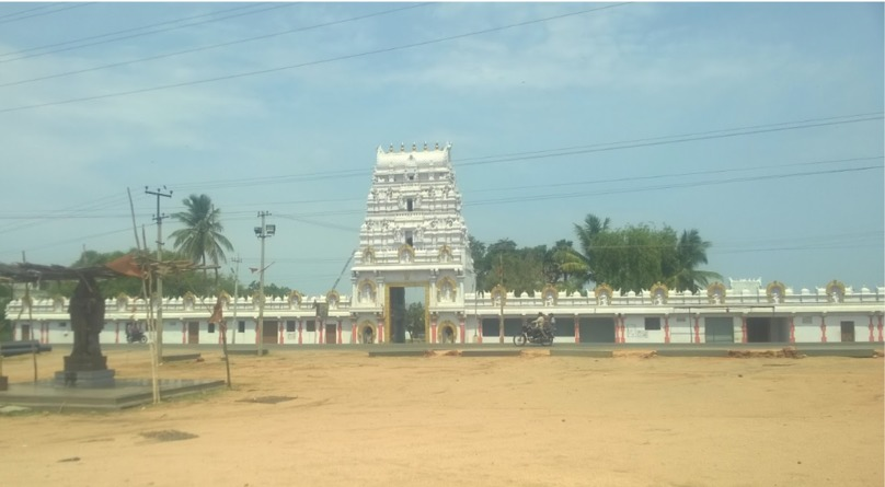 shadnagar